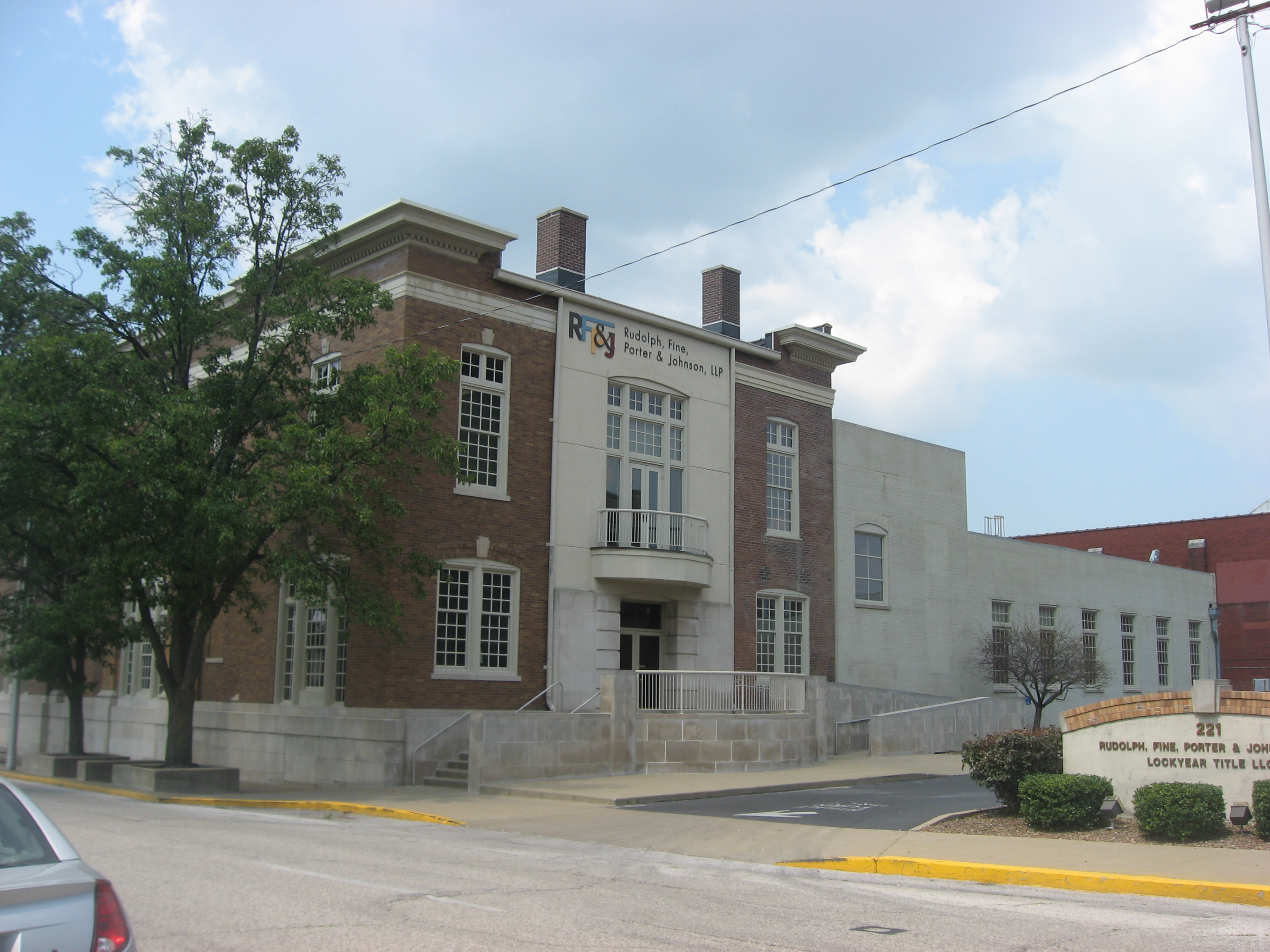 Front and southeastern side of the Eagles Home building, located at 221 NW. Fifth Street in Evansville, Indiana, United States. Built in 1912 and since converted into a law office, it is listed on the National Register of Historic Places.